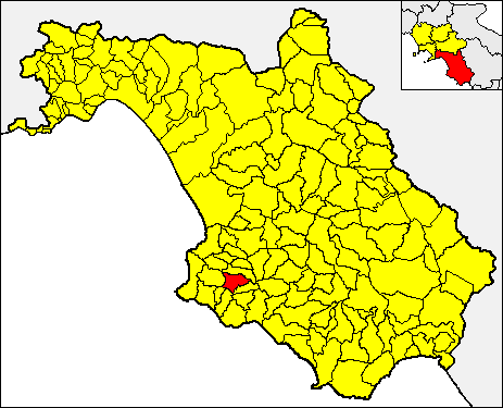 Locator map of the municipality of Sessa Cilento (red) within the Province of Salerno